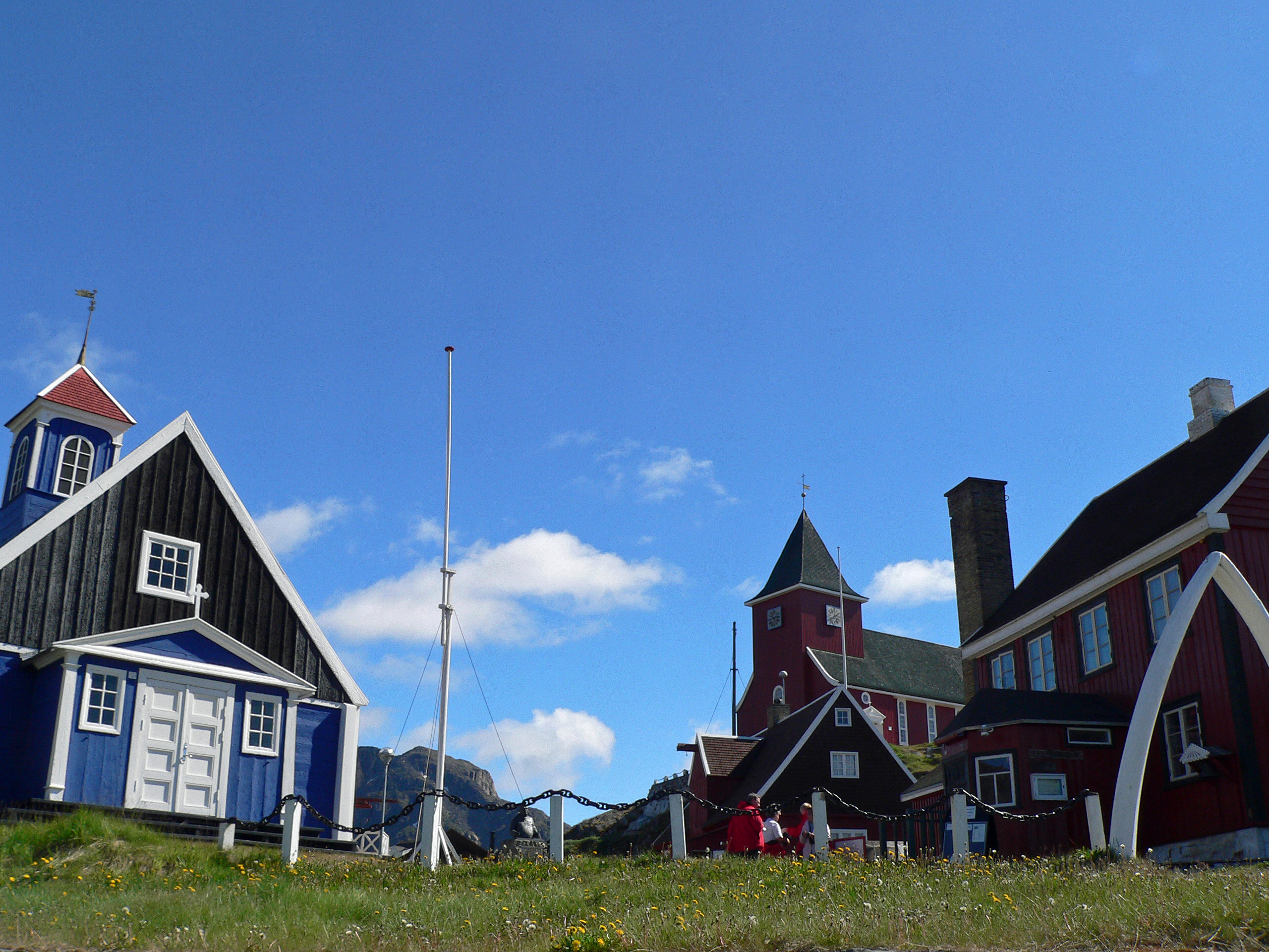 Sisimiut - Old and new church